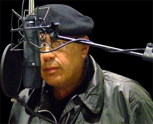 Mario Boncaldo recording @ Netland studio in Naples in 2007.